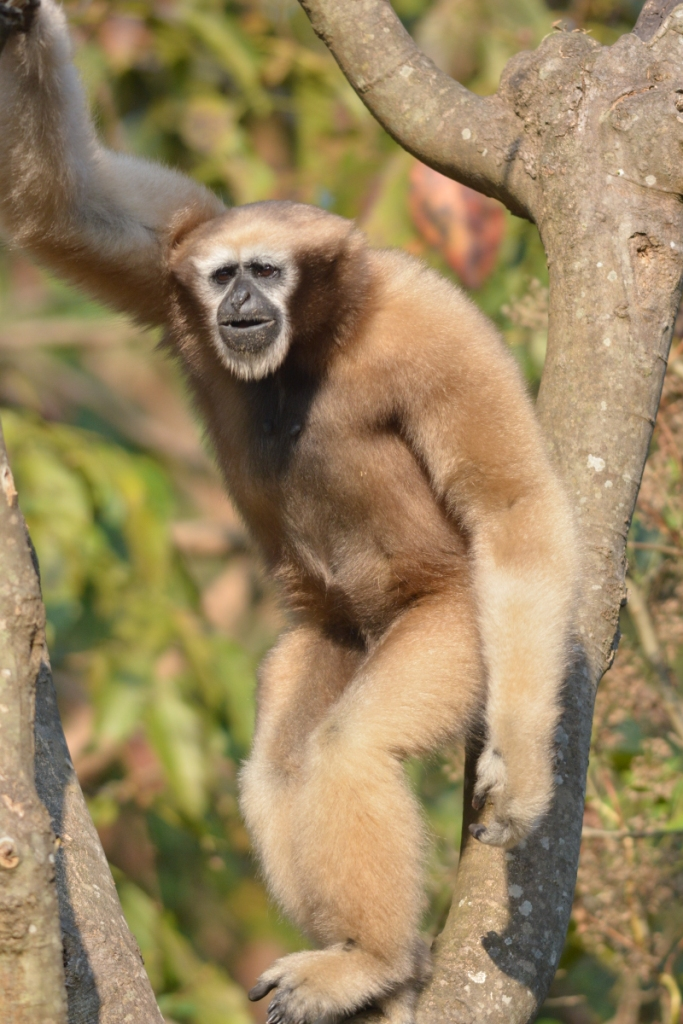 Hoolock Gibbon Hoolock hoolock. Photo taken in zoo in Aizawl, Mizoram, India.